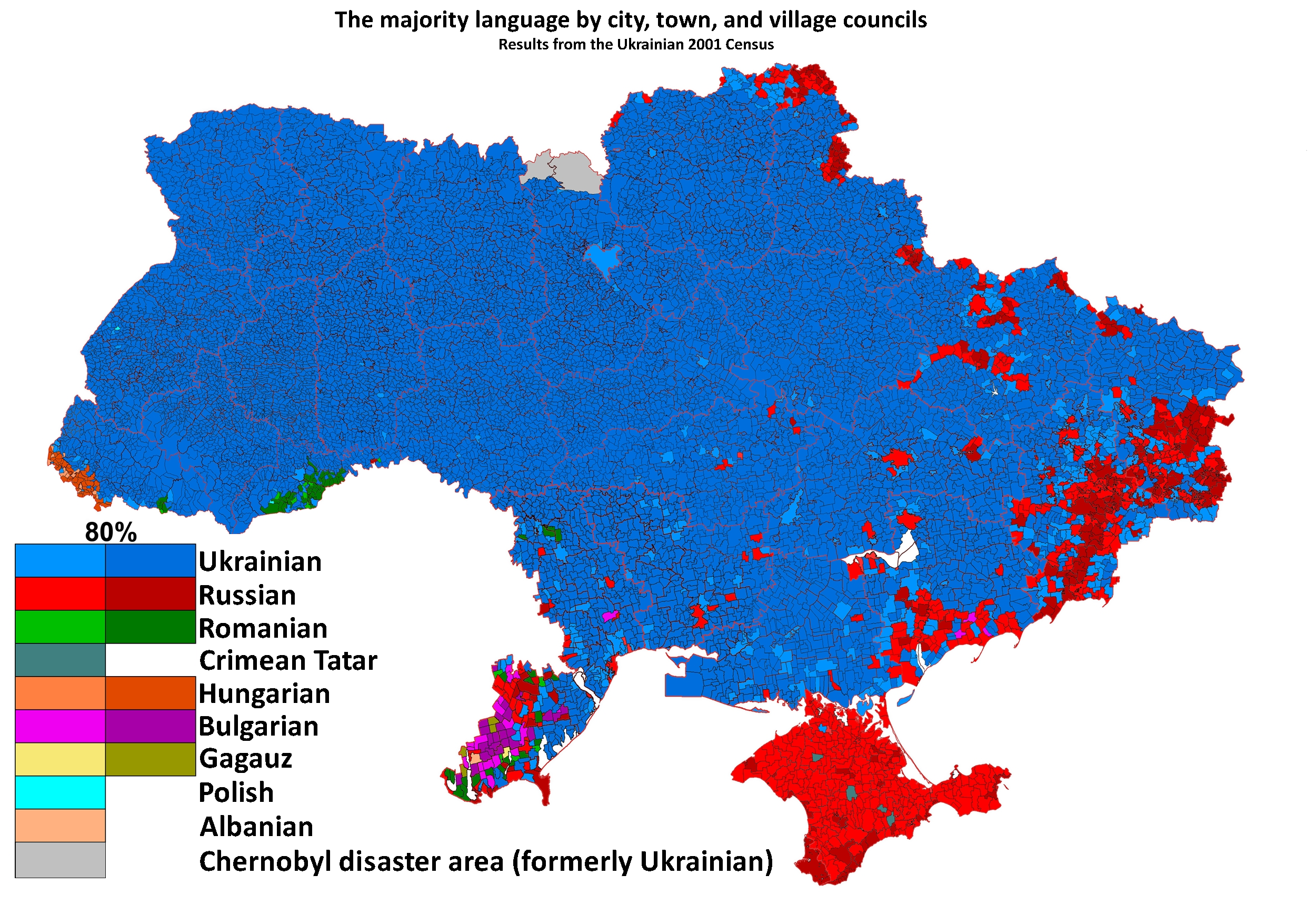 Most common native language in urban and rural municipalities of Ukraine according to 2001 census